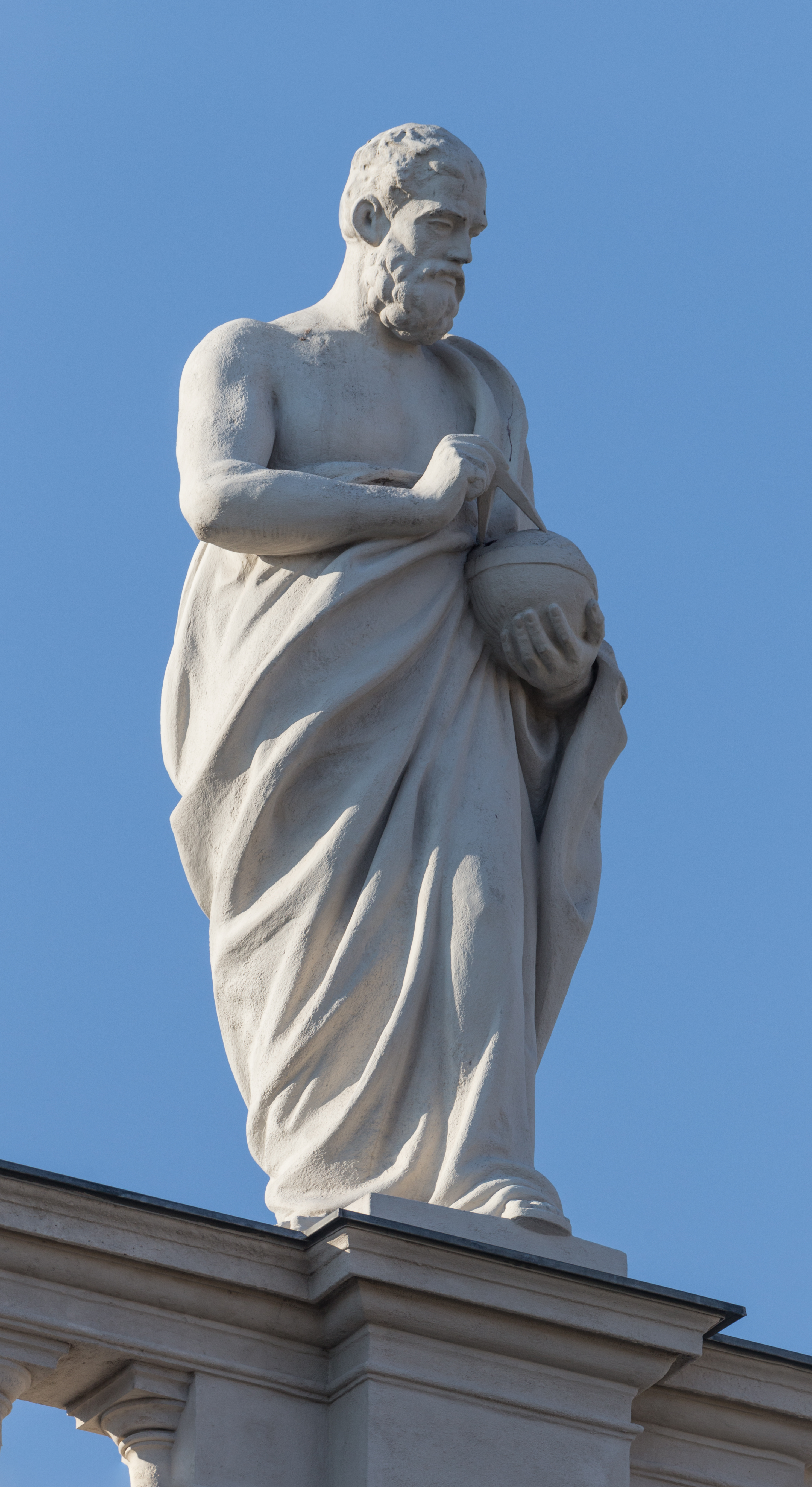 Roof figure Anaxagoras by Friedrich Beer, Naturhistorisches Museum in Vienna, Austria, Bellariastraße The making of this work was supported by Wikimedia Austria. For other files made with the support of Wikimedia Austria, please see the category Supported by Wikimedia Österreich.